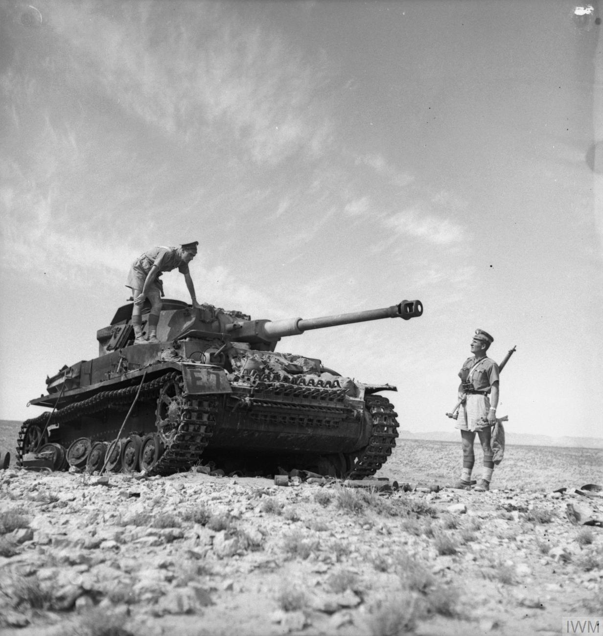 The British Army in Tunisia 1943 Guardsmen of the Scots Guards inspect a knocked-out German PzKpfw IV tank near Medenine, 12 March 1943.